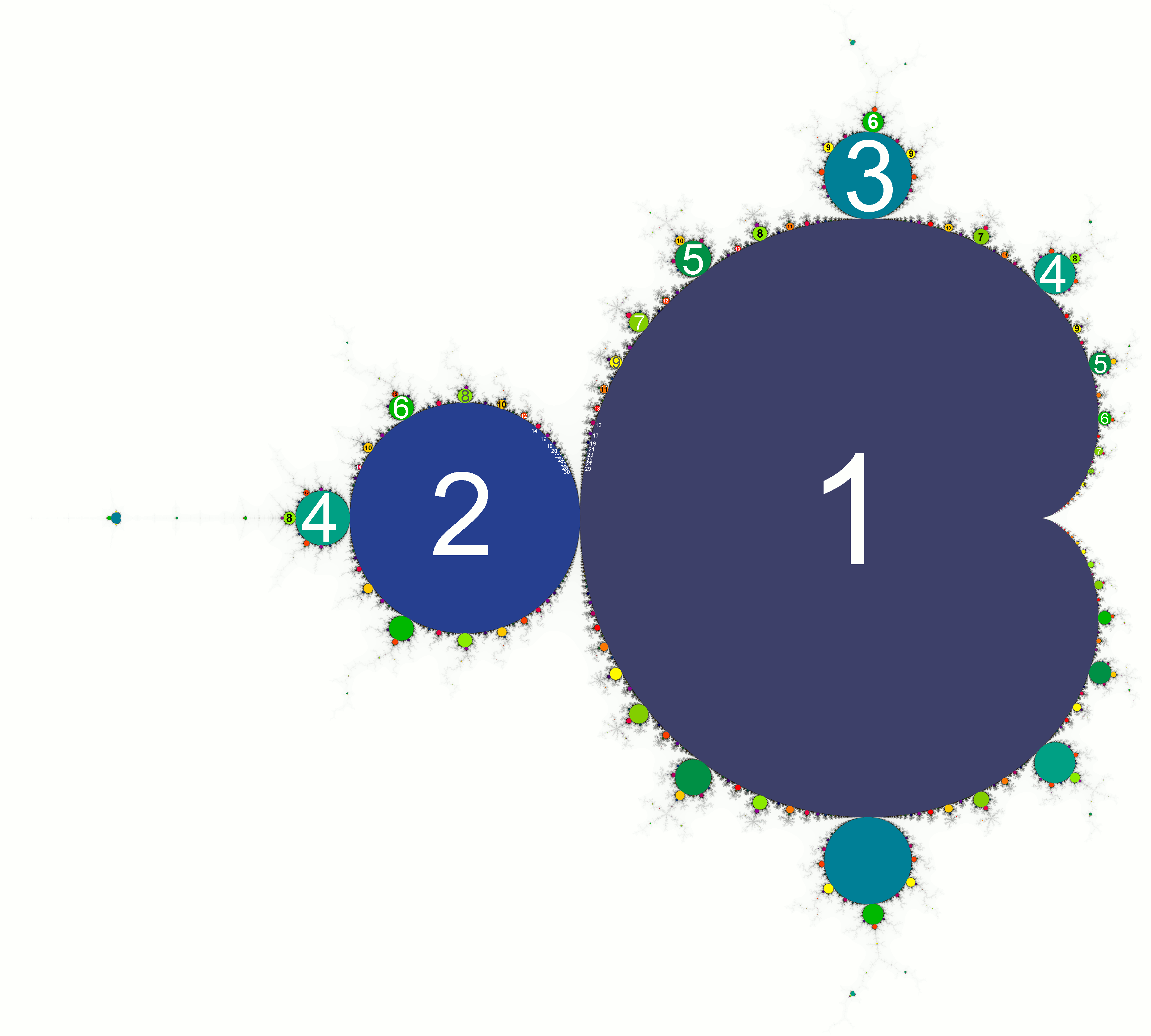 Mandelbrot set with the periodicity of the limiting sequence coded by colors. Periodicity is detected by calculating the quadratic distance of a part of the sequence to the appropriately shifted part of the same sequence.